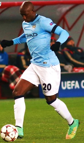 Eliaquim Mangala